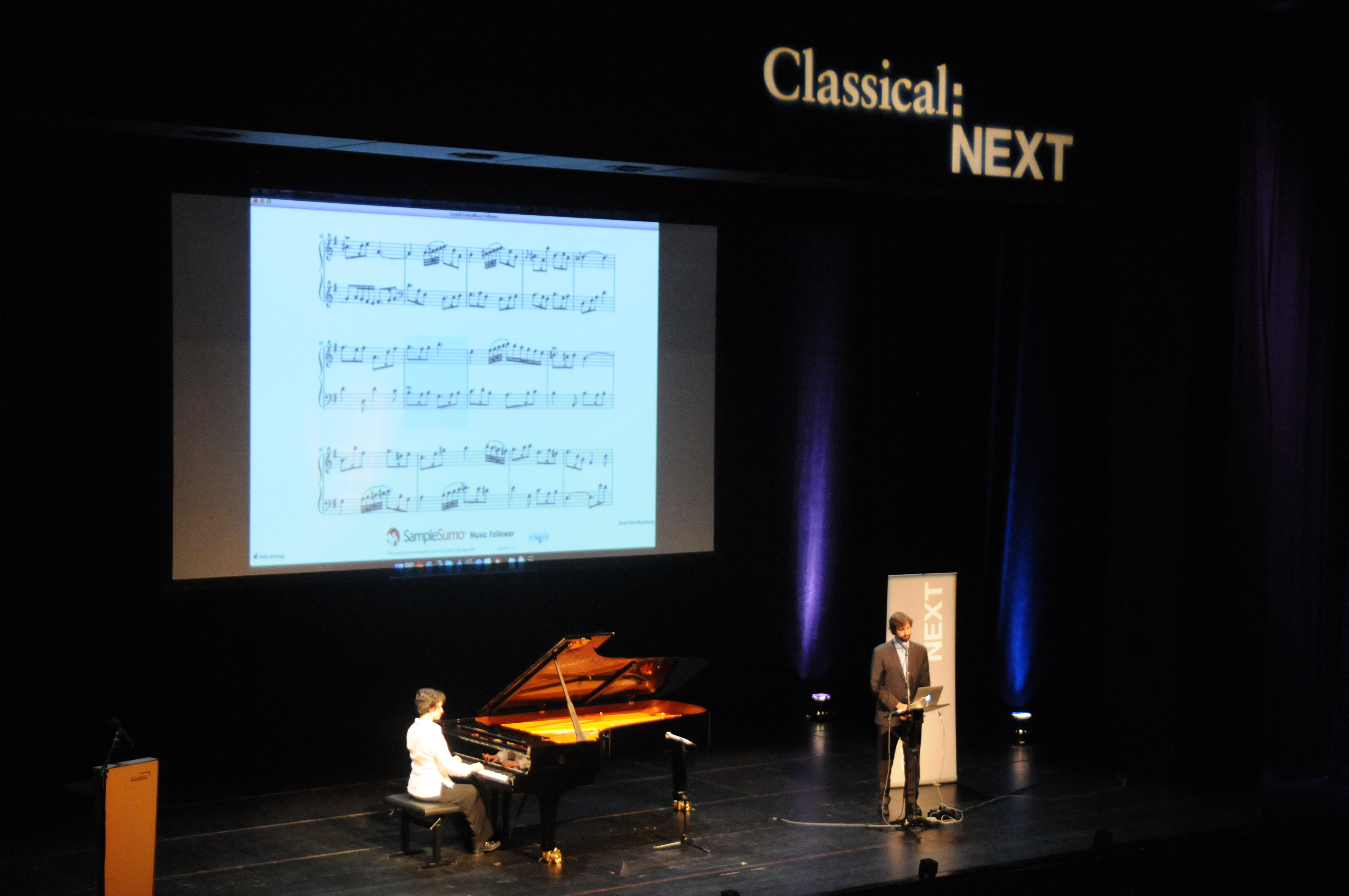 In a special performance that marries the music of Bach and cutting edge internet technology, internationally acclaimed pianist Kimiko Ishizaka will perform Bach’s Goldberg Variations at Classical:NEXT. Thanks to an audio tracking technology developed by SampleSumo and a special new digital edition of the Goldberg Variations score, the audience will be able to follow along with the score as Ishizaka plays. The score, which was created using the open source notation software MuseScore, as well as Ishizaka's recent recording of the Variations, were crowdfunded by fans and released to the public domain as a part of the Open Goldberg Variations project.